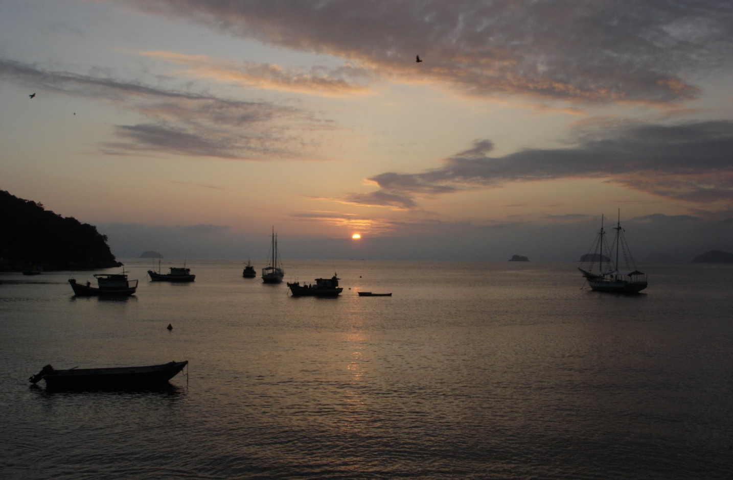 Sunset and boats at Picinguaba, Ubatuba, São Paulo, Brazil.